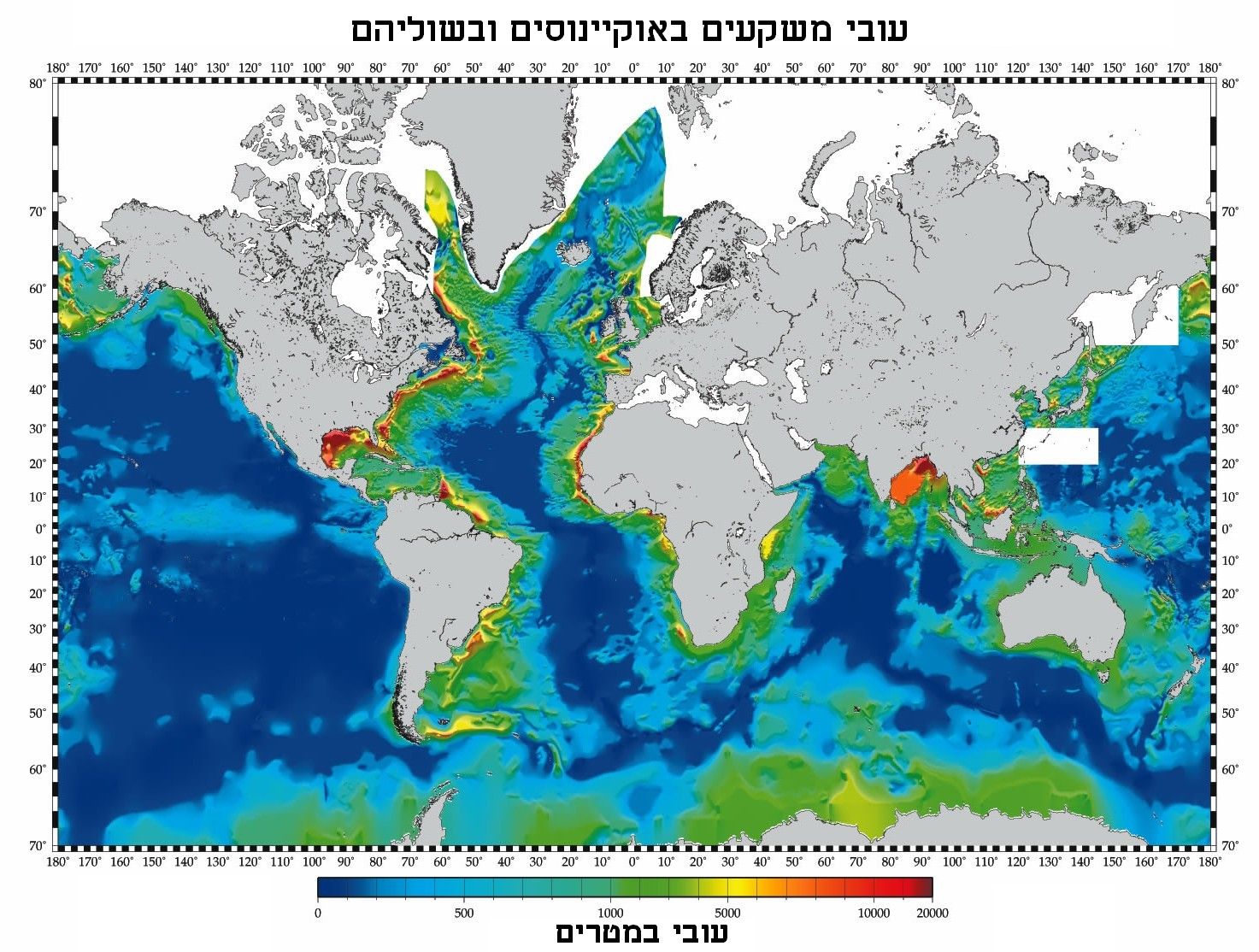 Hebrew bersion of Image:Total Sediment Thickness of the World's Oceans & Marginal Seas.jpg